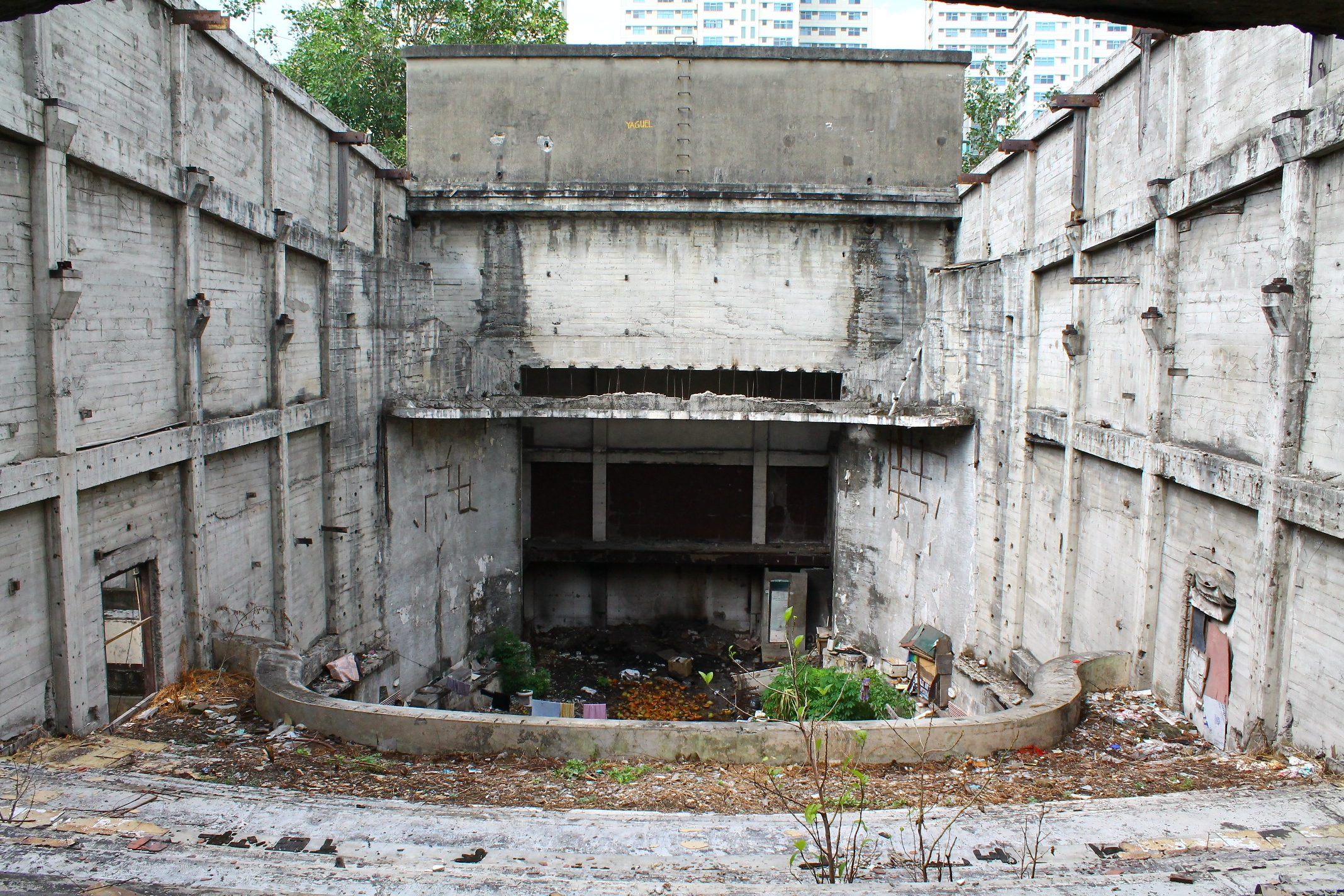 The Gaiety Theatre is located on M. H. del Pilar street in the Ermita district in the city of Manila. It was designed in the art deco style in 1935 by Juan Nakpil.